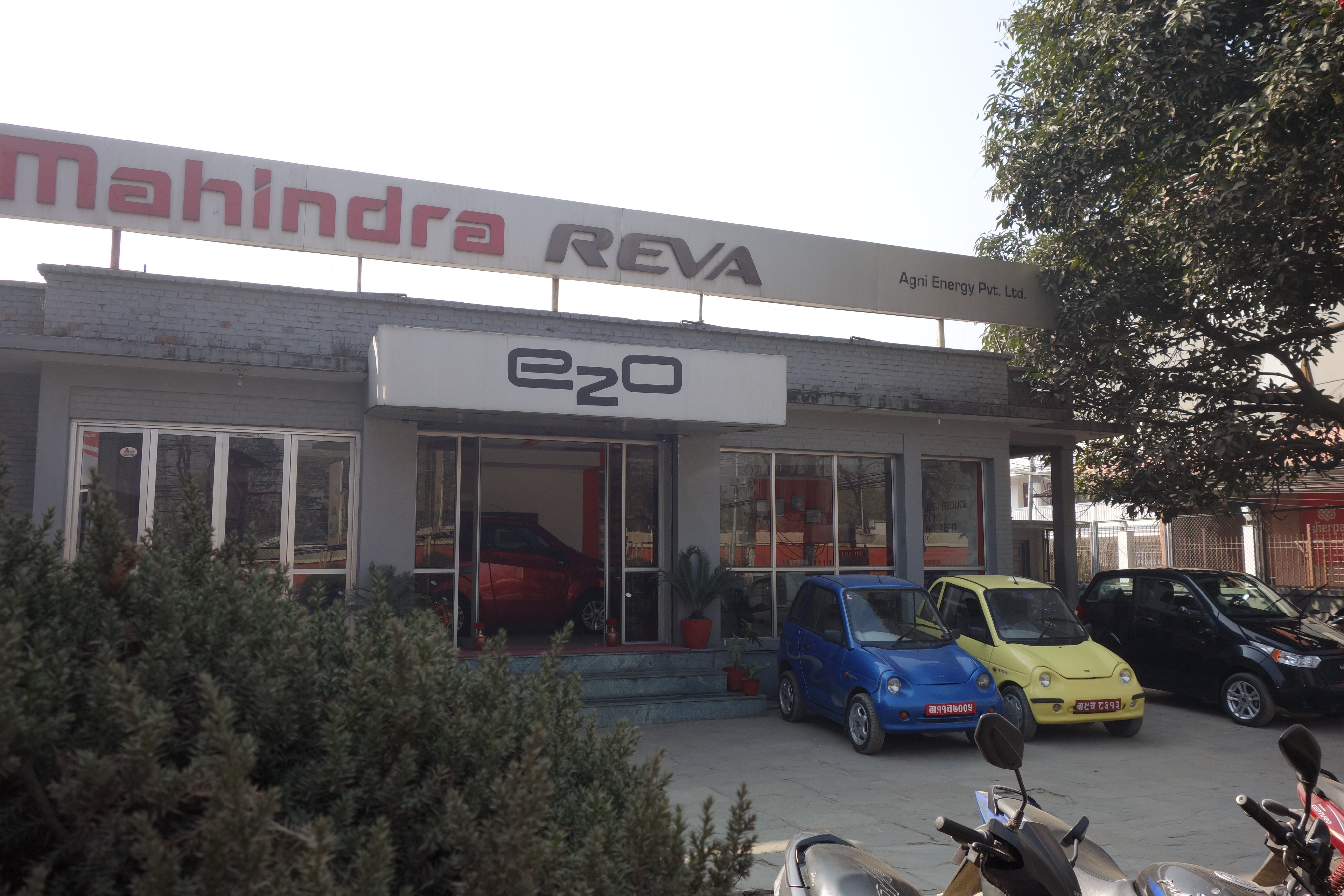 A Mahindra Reva dealership in Kathmandu selling the Mahindra e2o and Reva i.